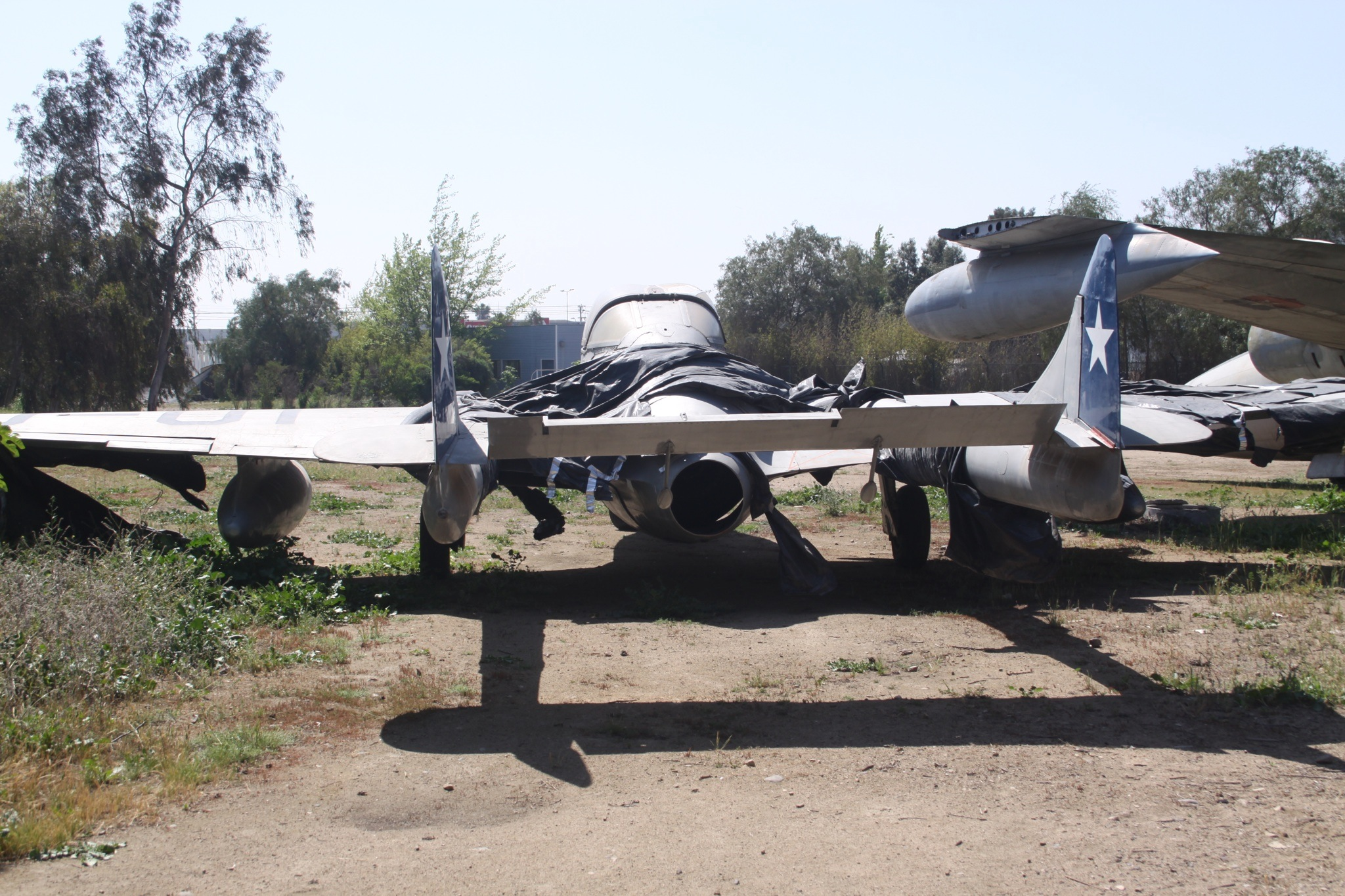 At Santiago Los Cerillos